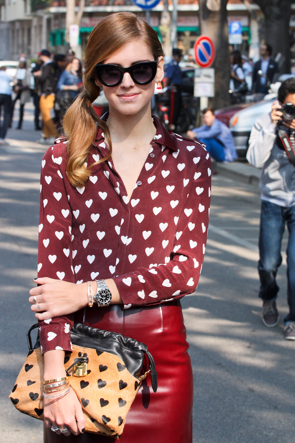 Photos from Giorgio Armani Show, Milan Fashion Week MFW 2013